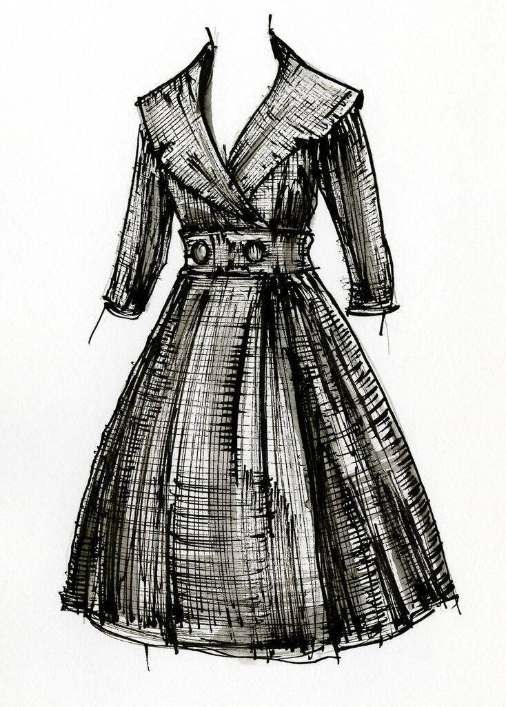 Drawing of the Thesaurus concept : 'coatdress'